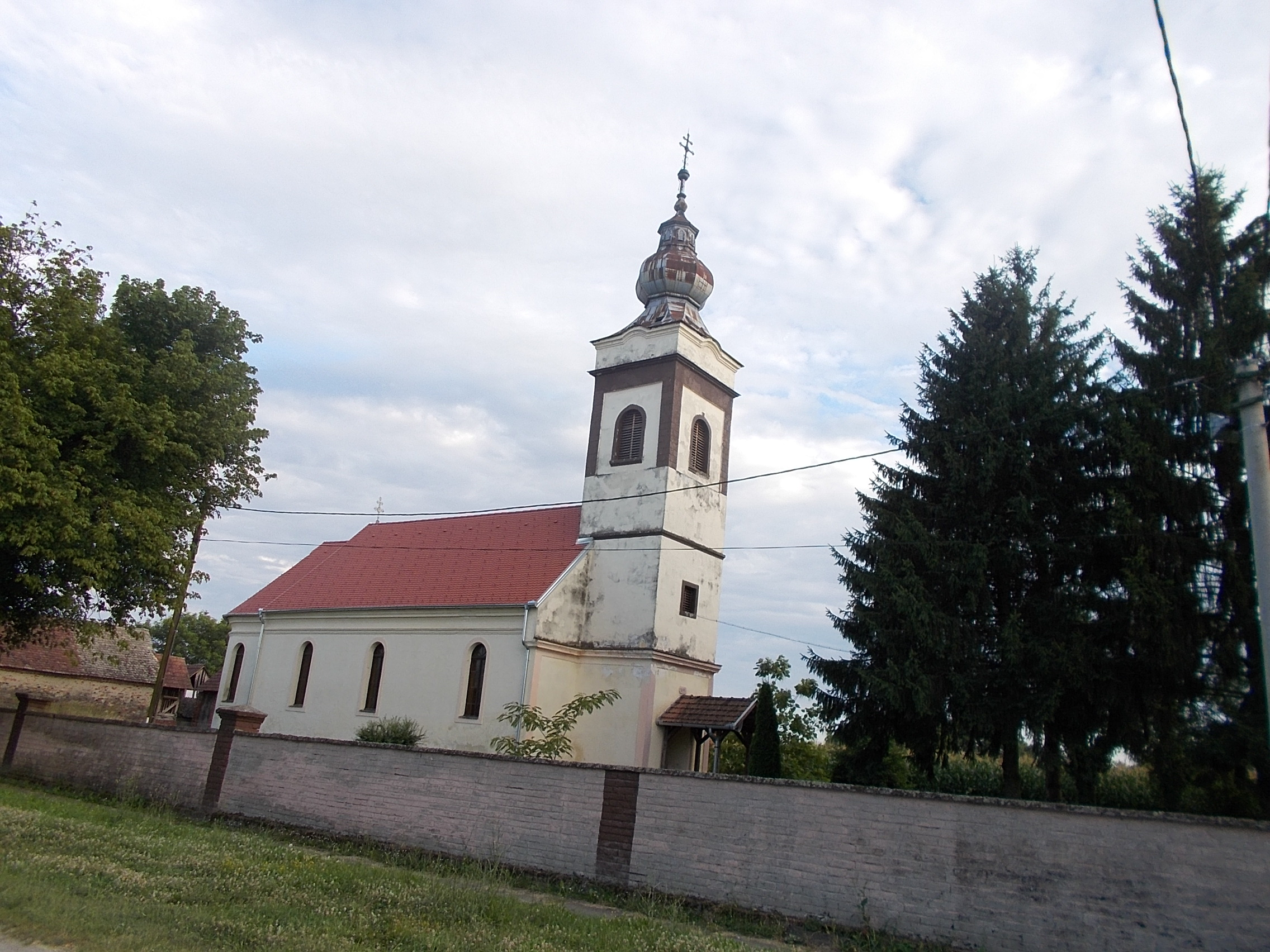 Orthodox church of the Holy Trinity, Kapelna.